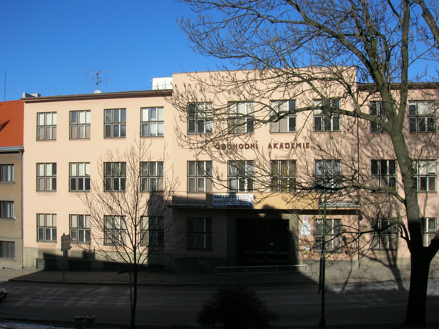 Třebíč-Domky. Commercial Academy